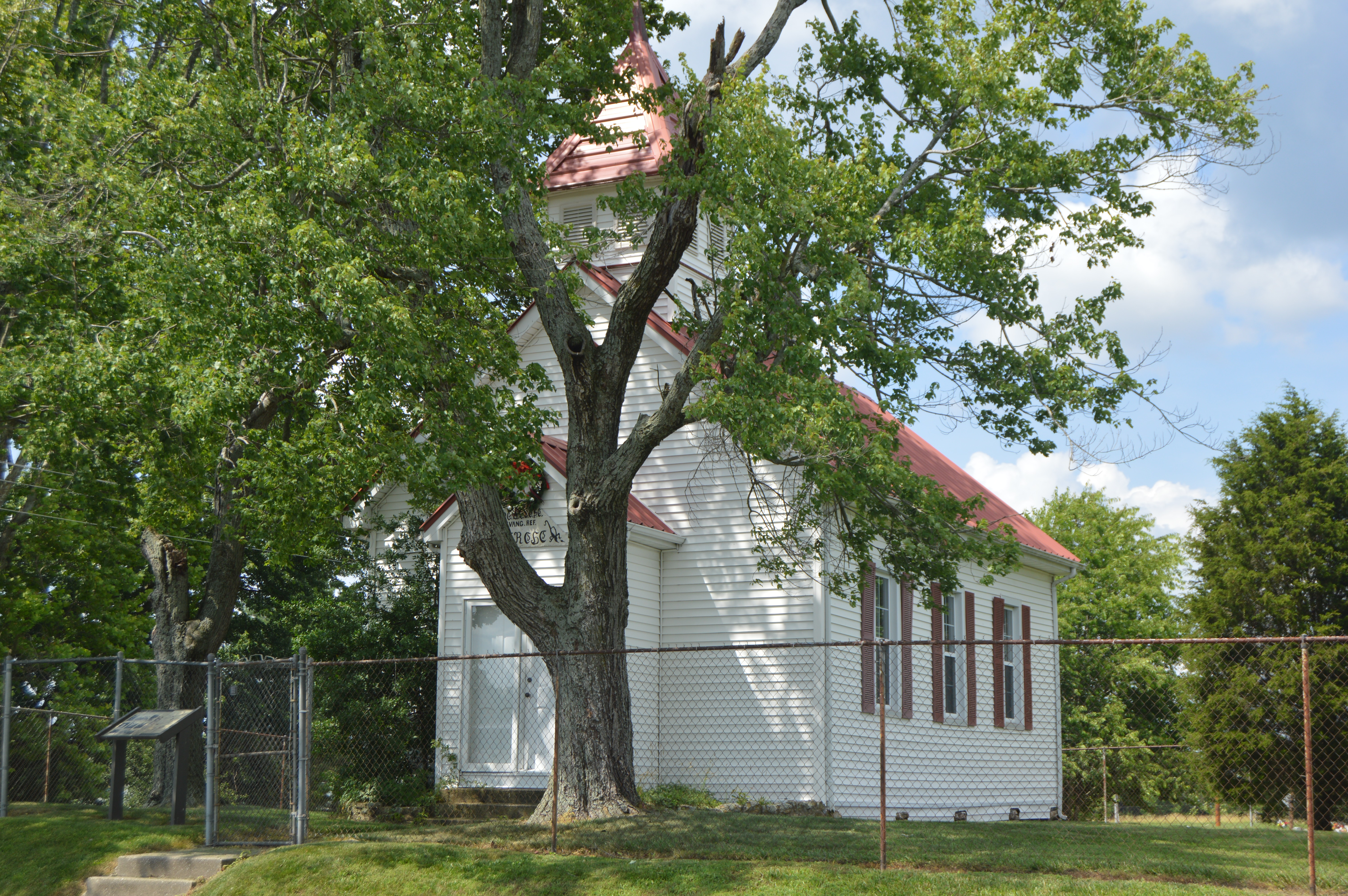 Front and eastern side of the former First Evangelical Reformed Church, located on Hawk Creek Road at Bernstadt in Laurel County, Kentucky, United States. Built in 1884, it is listed on the National Register of Historic Places.